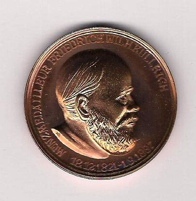 Commemorative medal on the 100th anniversary of death of Friedrich Wilhelm Kullrich (1821-1887)